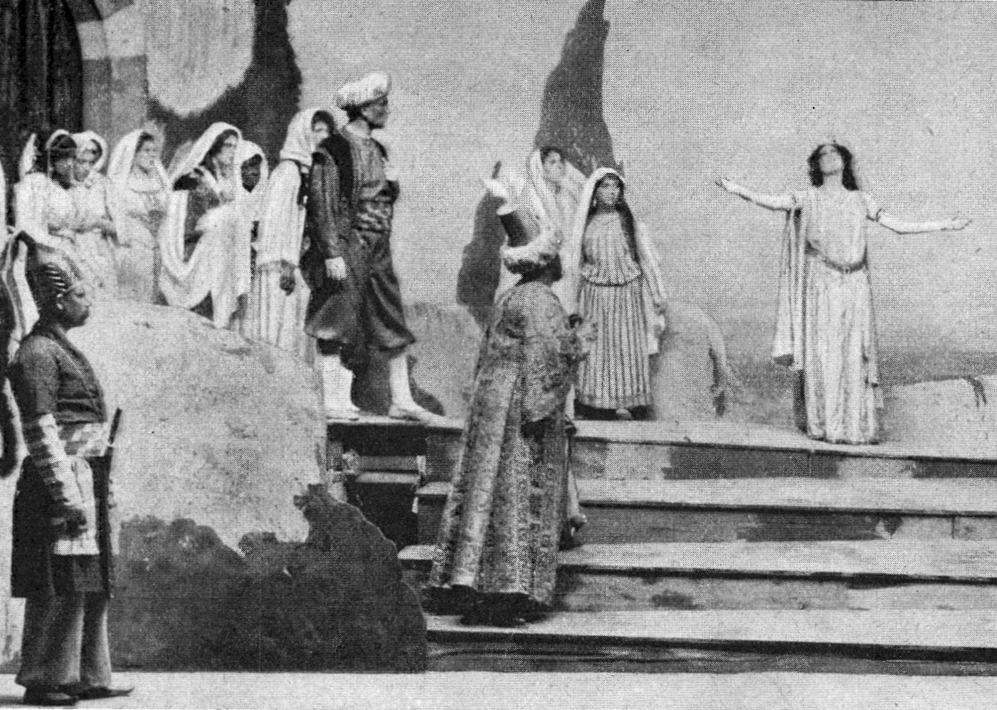 Scen from the 3rd act of the opera Leila by Natanael Berg Hvar 8 Dag 1912.